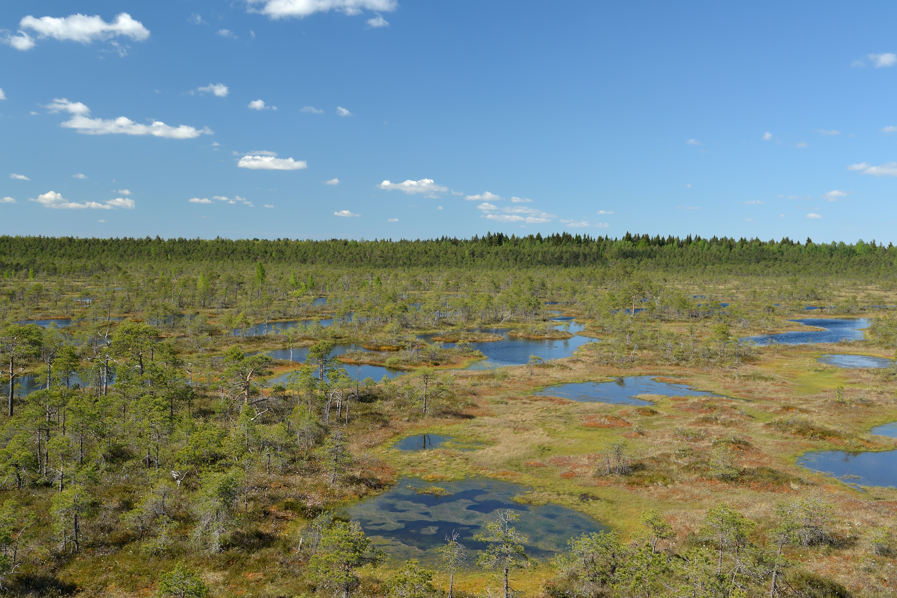 Männikjärve bog